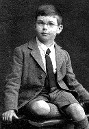 Alan Watts, aged 7, recently enrolled at St Hugh's prep school "In My Own Way" by AW, Pantheon Books, 1972; with the note, "as I was sent off to boarding school (1922) . . ."